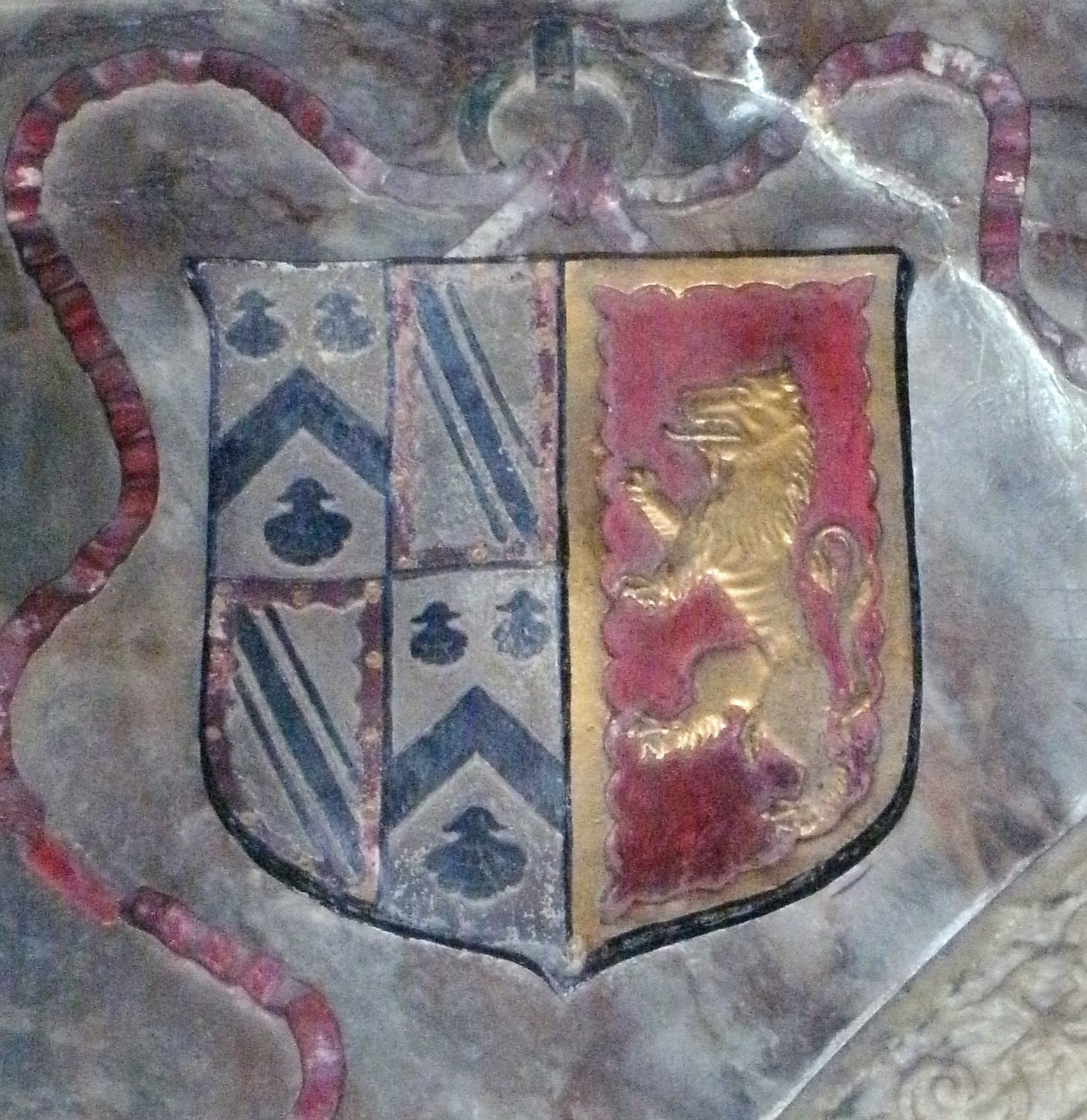 St John the Baptist Church, Bromsgrove, Worcestershire - monument to George Lyttelton (detail of his parents' arms of Lyttelton and Talbot). George Lyttelton (1528–1600), of Frankley, Worcestershire, was a prominent lawyer. He was the son of John Lyttelton/Littleton (died 1533) and his wife Elizabeth (née Talbot, died 1581), a daughter of Sir Gilbert Talbot, of Grafton Manor, Worcestershire (died 1542) and Anne Paston.